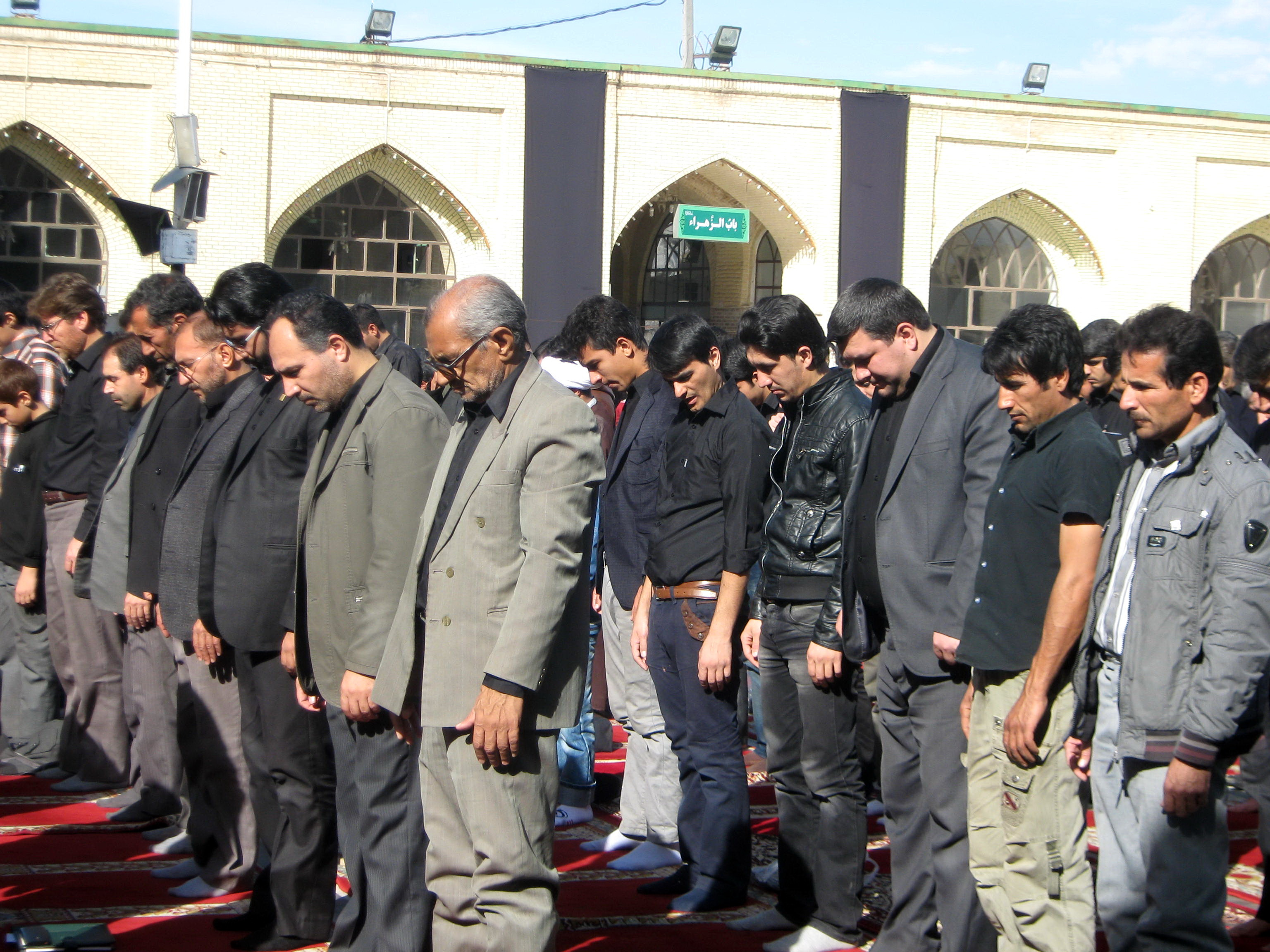 November13,2013 - Muharram 9,1435 - Grand Mosque of Nishapur